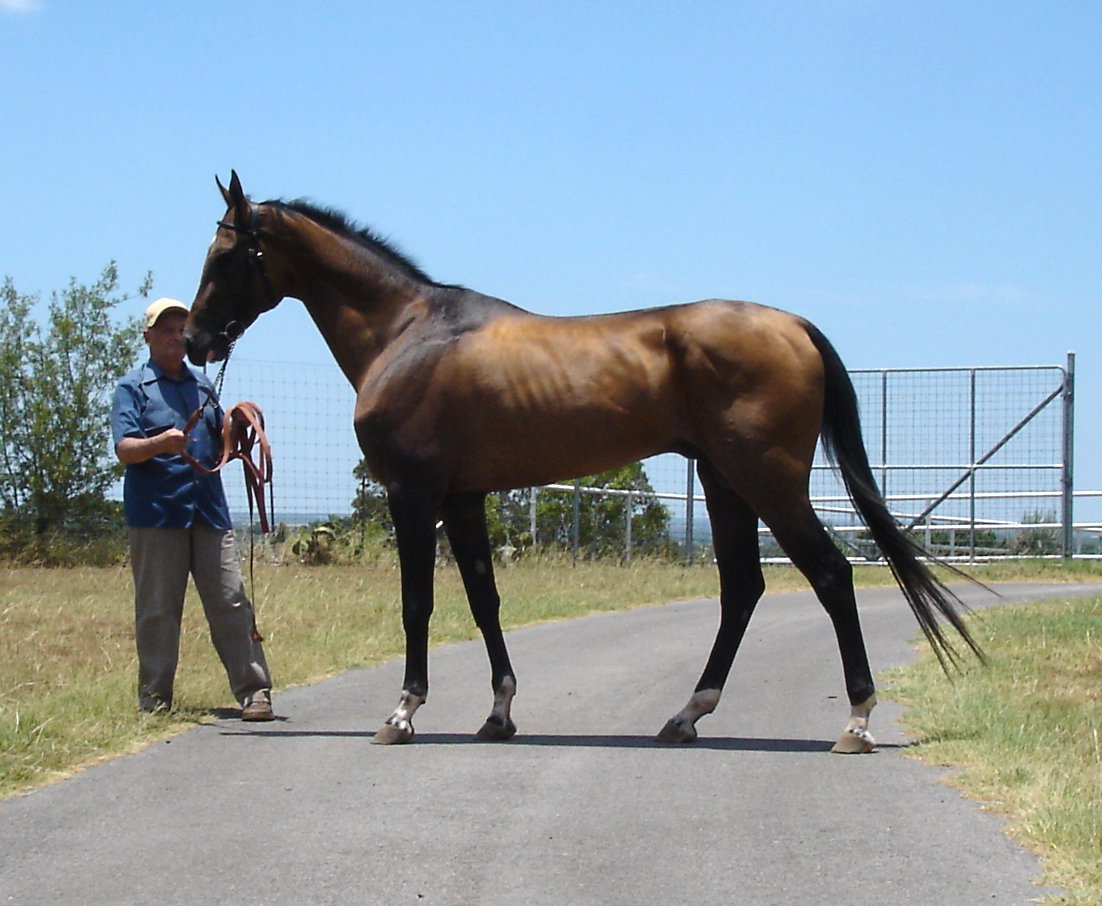 Typical Akhal Teke stallion